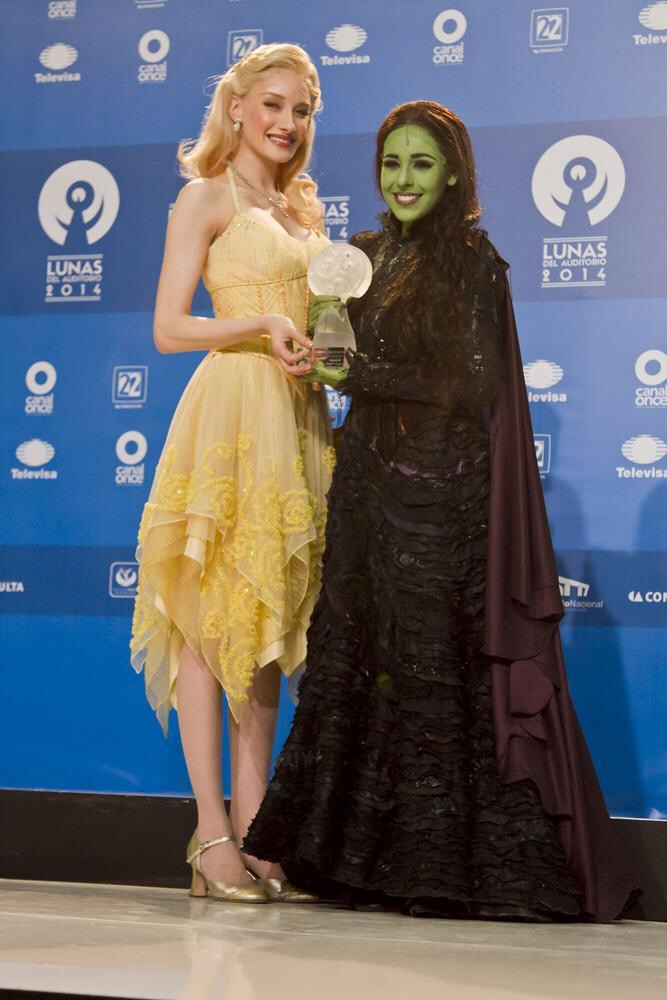 Wicked Mexico ganan la Luna del Auditorio 2014 - Danna Paola (Elphaba) & Cecilia de la Cueva (Glinda)